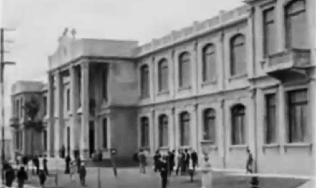 Paraninfo de la Universidad de San Carlos en 1920.